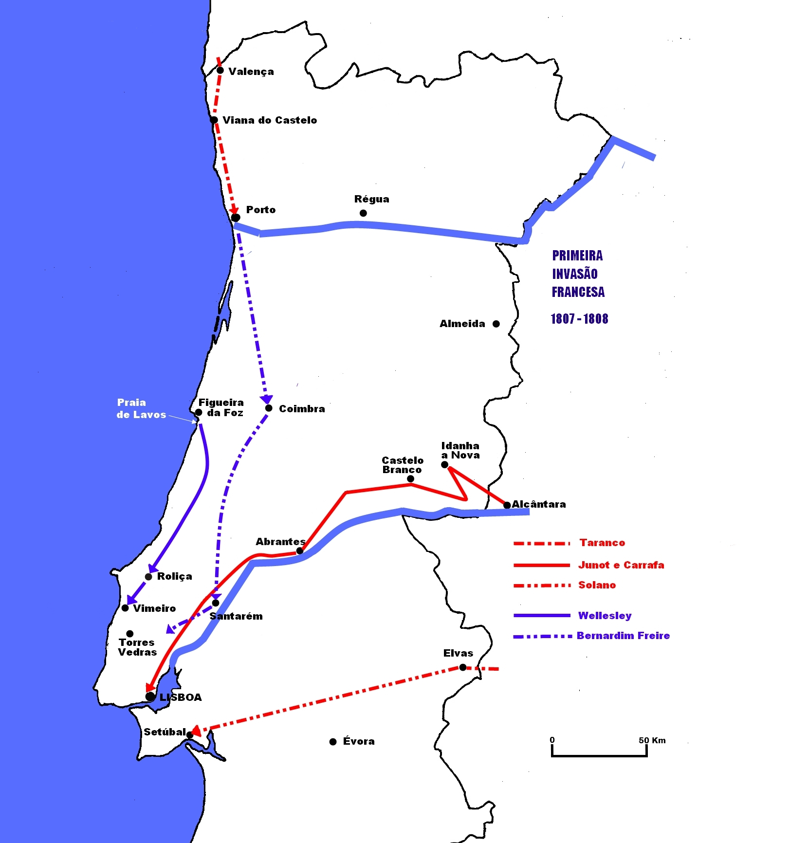 Map showing the routes of the Franco-Spanish invasion of Portugal in 1807 and the route of the troops of Wellesley and Bernardim Freire.